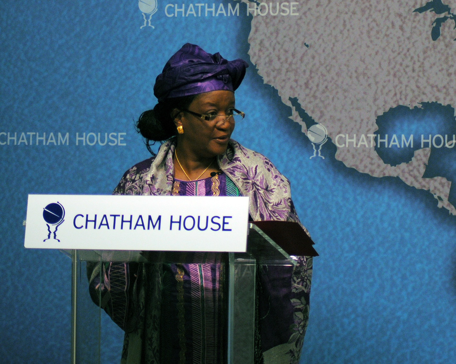 Haja Zainab Hawa Bangura, UN Special Representative of the Secretary-General on Sexual Violence in Conflict - Global Solutions to Sexual Violence in Conflict, 18 February 2013